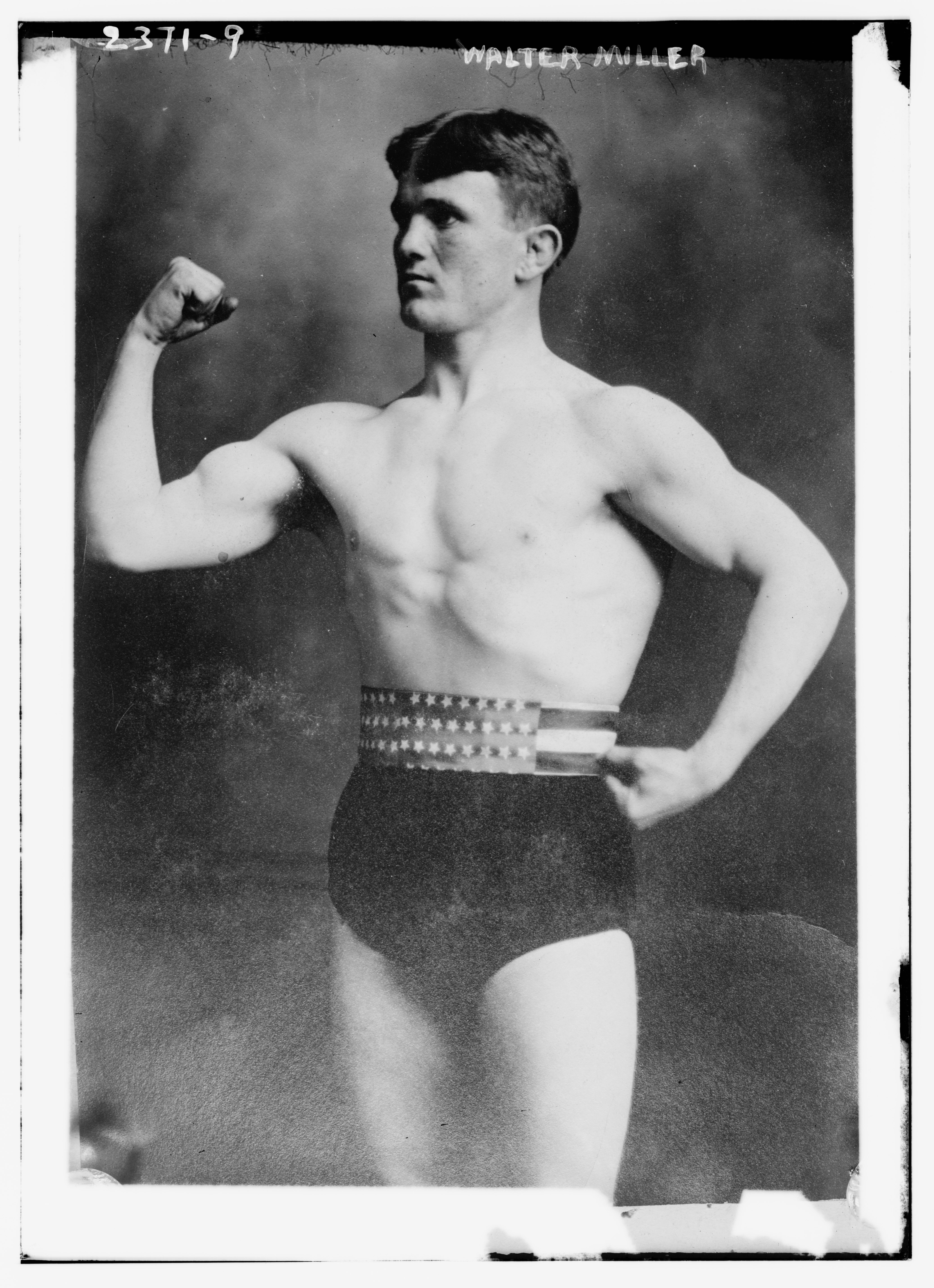 Title: Walter Miller Abstract/medium: 1 negative : glass ; 5 x 7 in. or smaller.